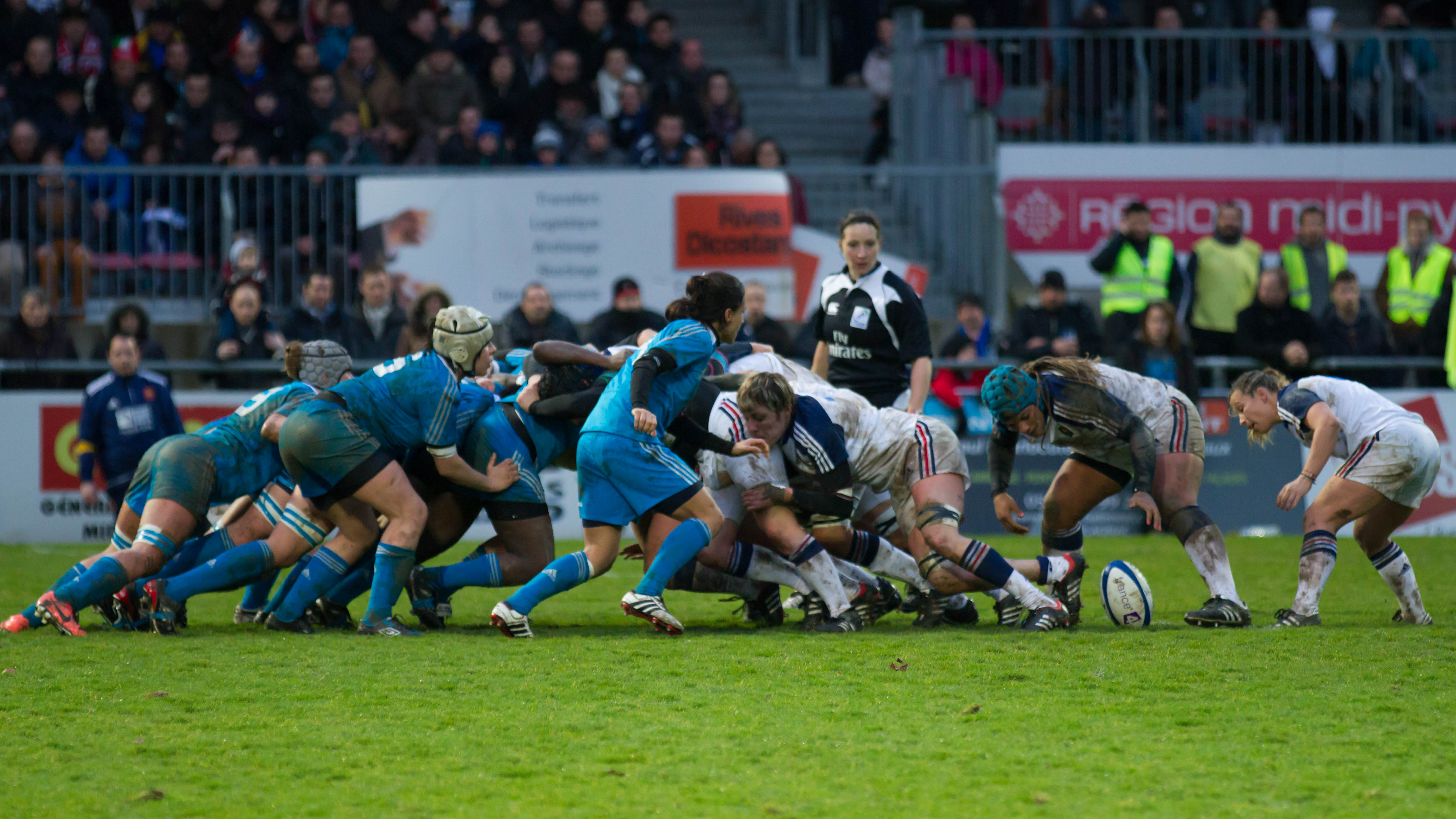 2014 Women's Six Nations Championship — 9 February 2014, Stade Ernest Argeles. Match between: France women's national rugby union team — Italy women's national rugby union team